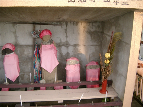 Kubi-Nashi-Jizo, the Statues Without Heads, suffered by the Tsuchizaki Air Raid on very the night before the end of World War II (Unshoji-Temple, Kokujo, Iijima, Akita City, Akita Prefecture, Japan)